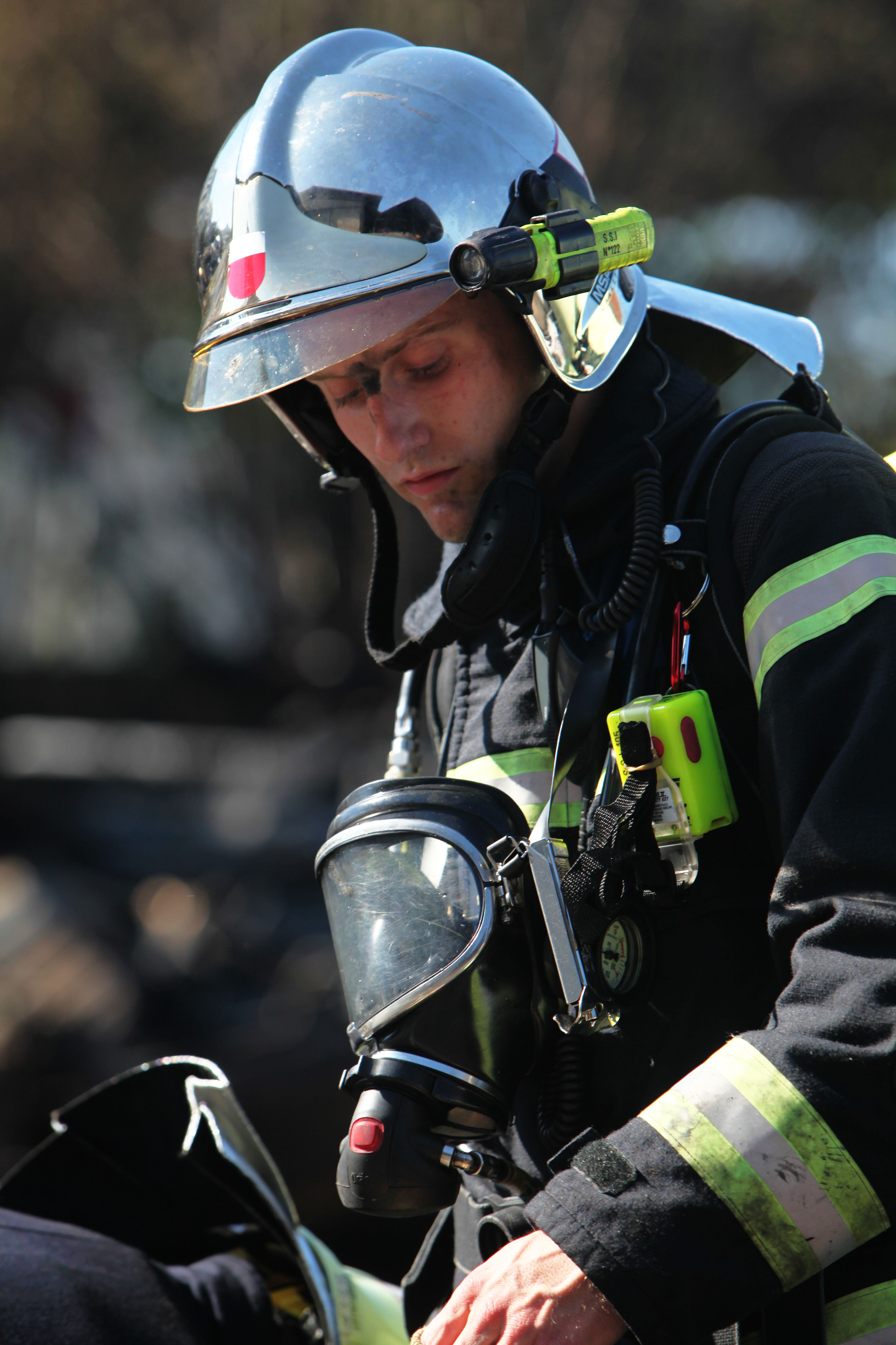 Firefighters finishing extinguishing a fire at Flon in Lausanne.